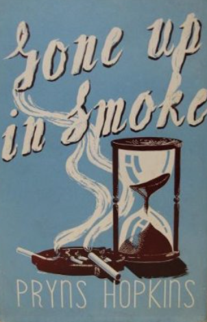 Gone Up in Smoke, published in 1948.